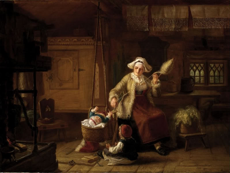 Interior with mother and child